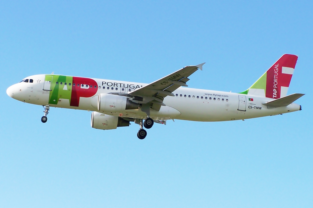 CS-TMW A320 TAP